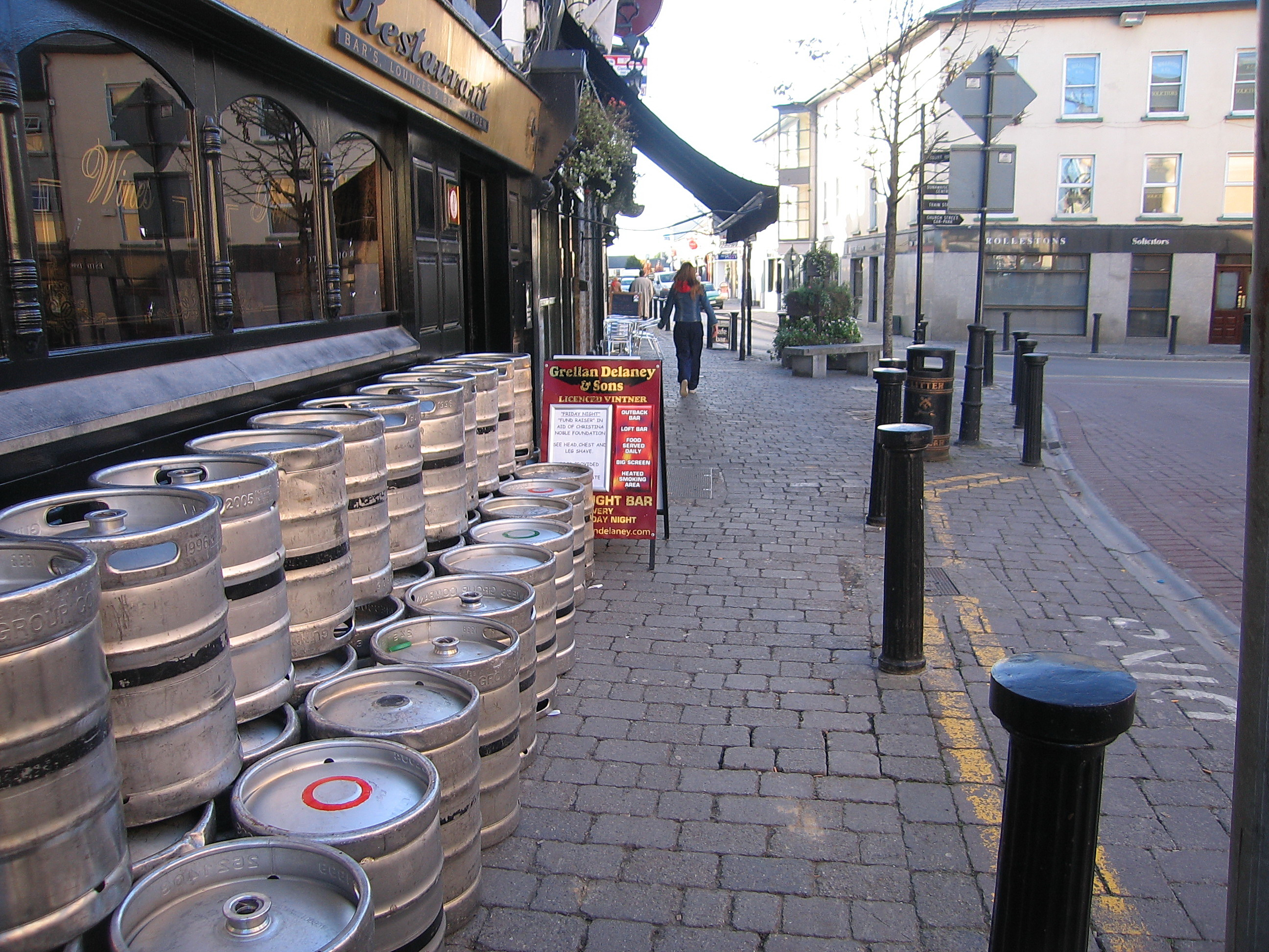 Portlaoise (Sarah777 00:54, 9 January 2007 (UTC))